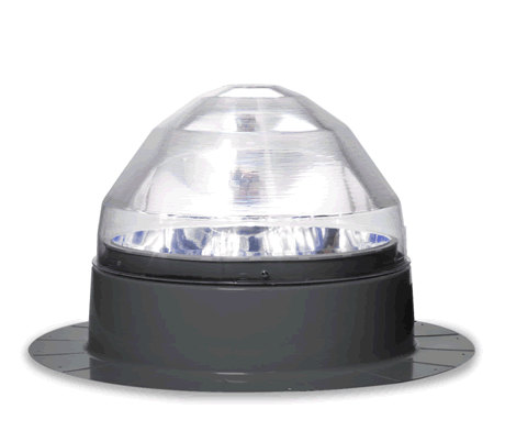 Active daylighting collection dome for a tubular daylight device—TDD.